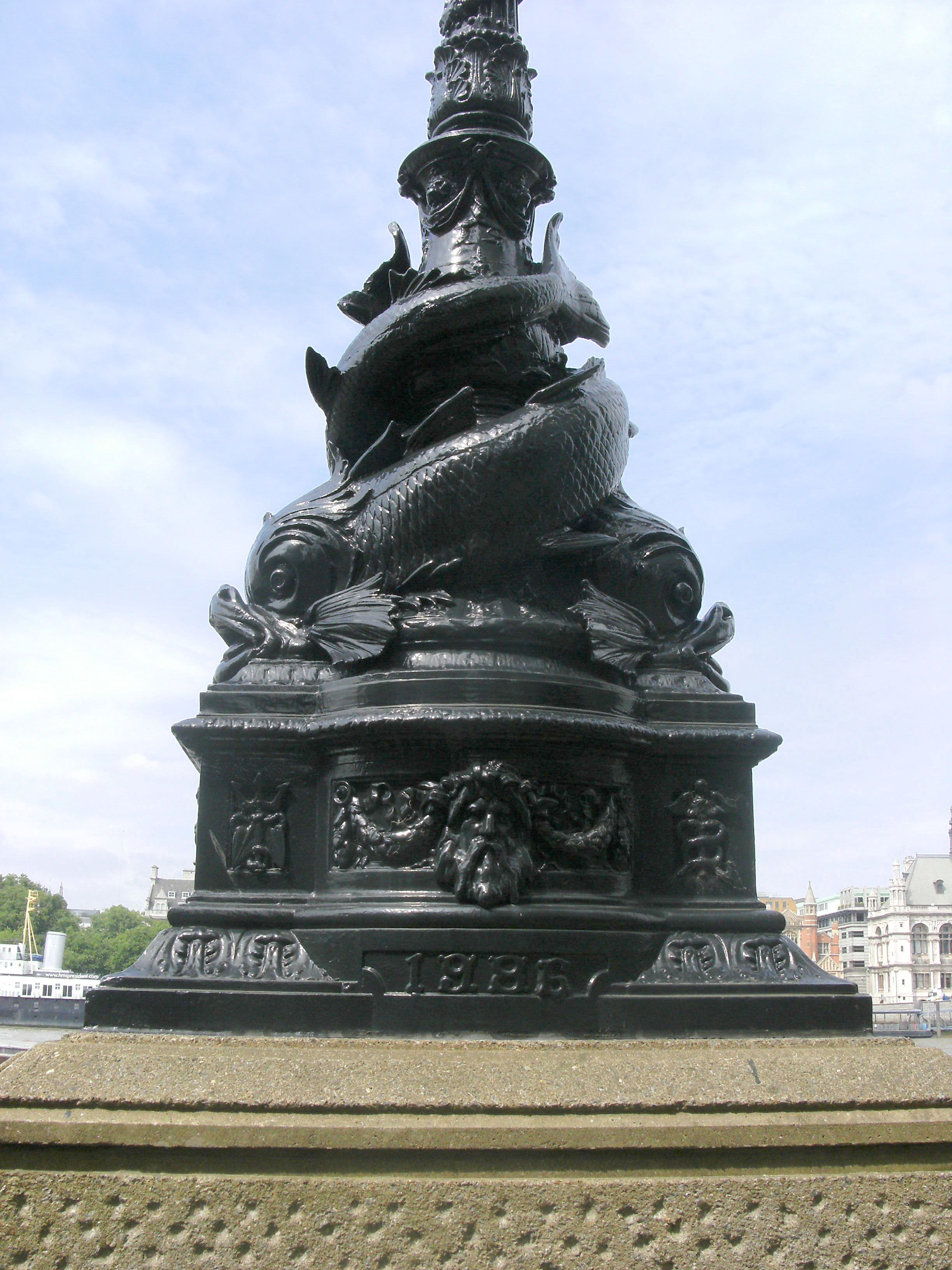 Base of one of the "Dolphin lampposts" outside Sea Containers House, South Bank, London. Lamppost actually depicts sturgeons, and was designed by Victorian architect George John Vulliamy.